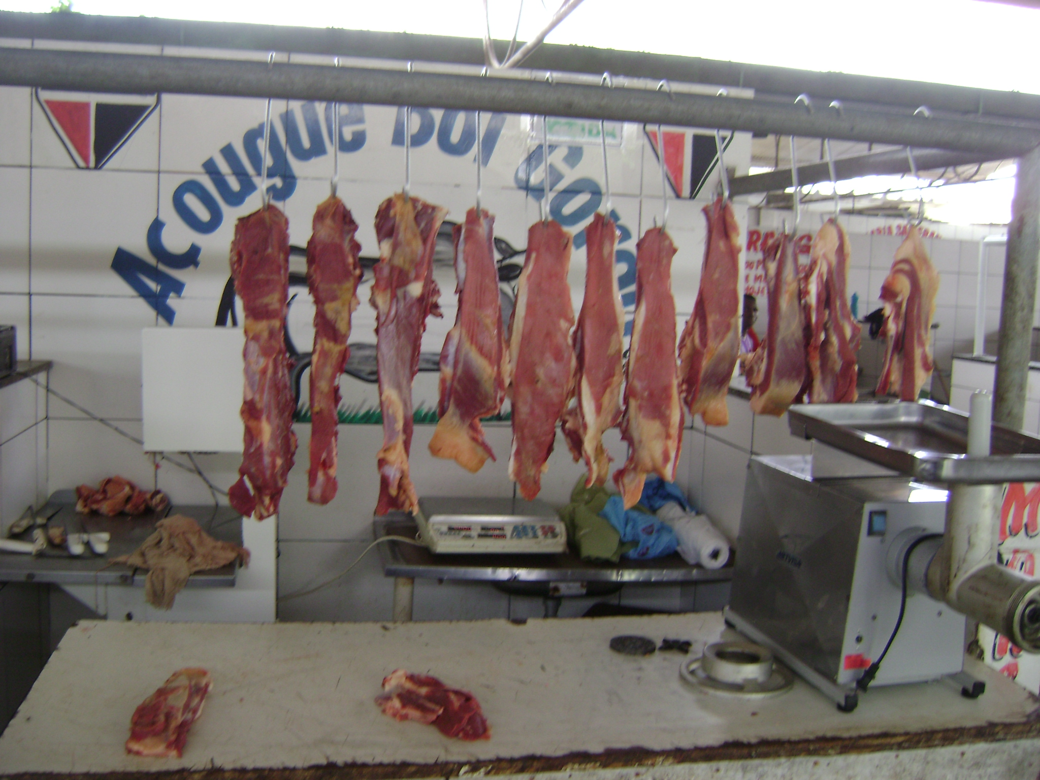 Butcher in Feira de Santana, Brazil.